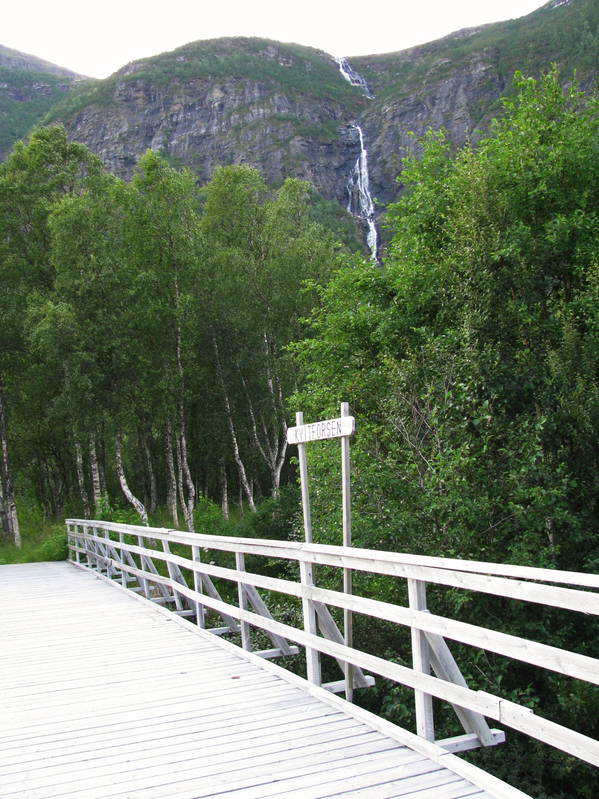 Kvitforsen waterfall near Strandvatnet lake, Evenes municipality, Nordland county, Norway. This is very close to Bogen village. Picture taken 8 PM (20:00) 25. July 2009.